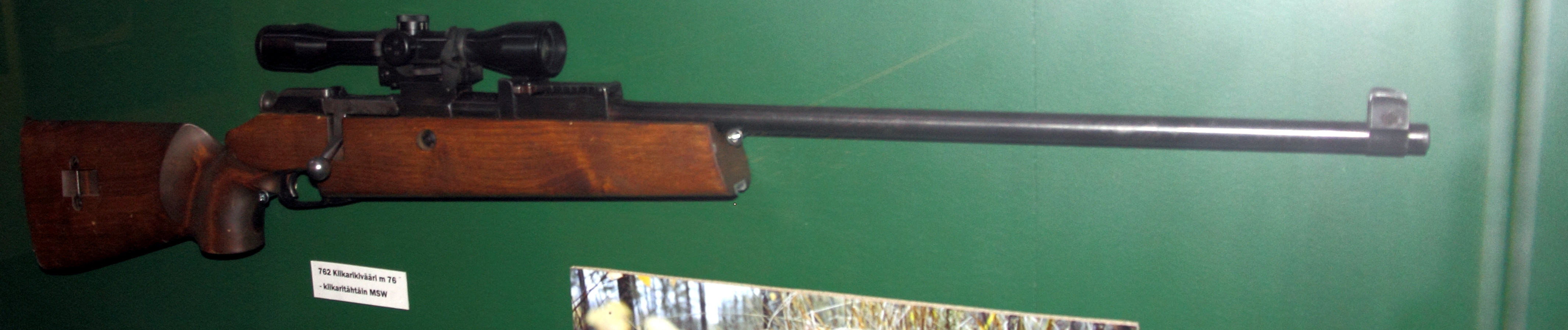 Finnish 7.62 mm sniper rifle m 76. Photographed in Mikkeli infantry museum.